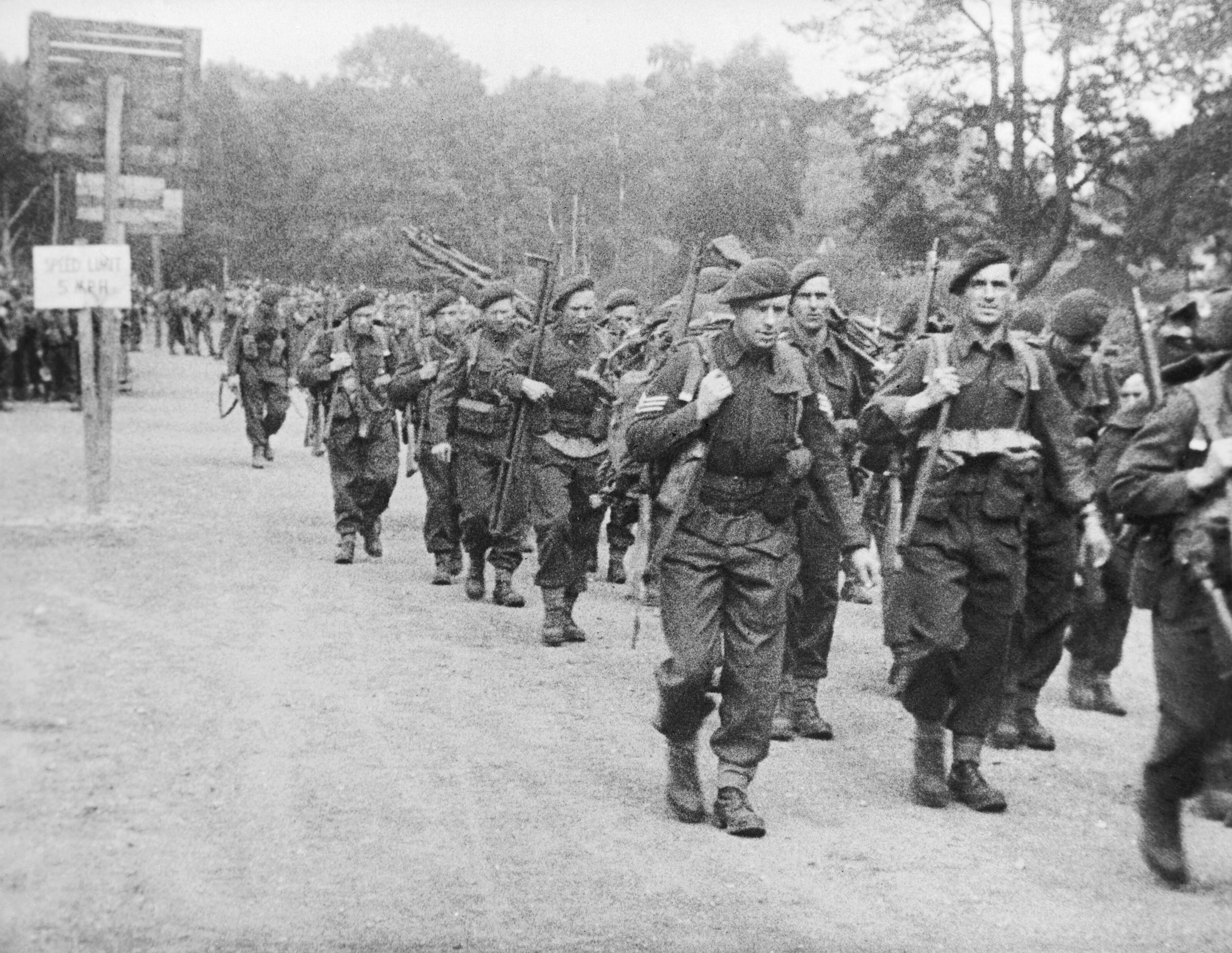 Operation Overlord (the Normandy Landings)- D-day 6 June 1944 The Final Embarkation: Men of No 4 (Army) Commando, 1st Special Service Brigade, marching from their assembly camp to Southampton for embarkation to Normandy, early June: (still taken from a film).